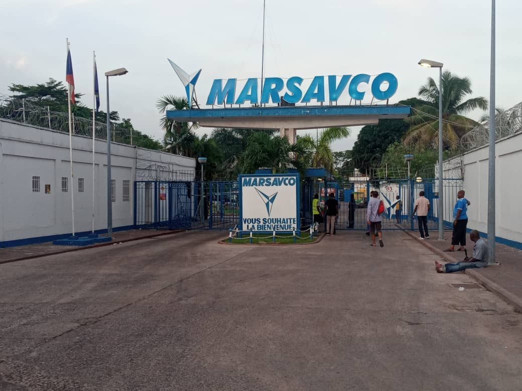 This is an image with the theme "Africa on the Move or Transport" from: Democratic Republic of the Congo